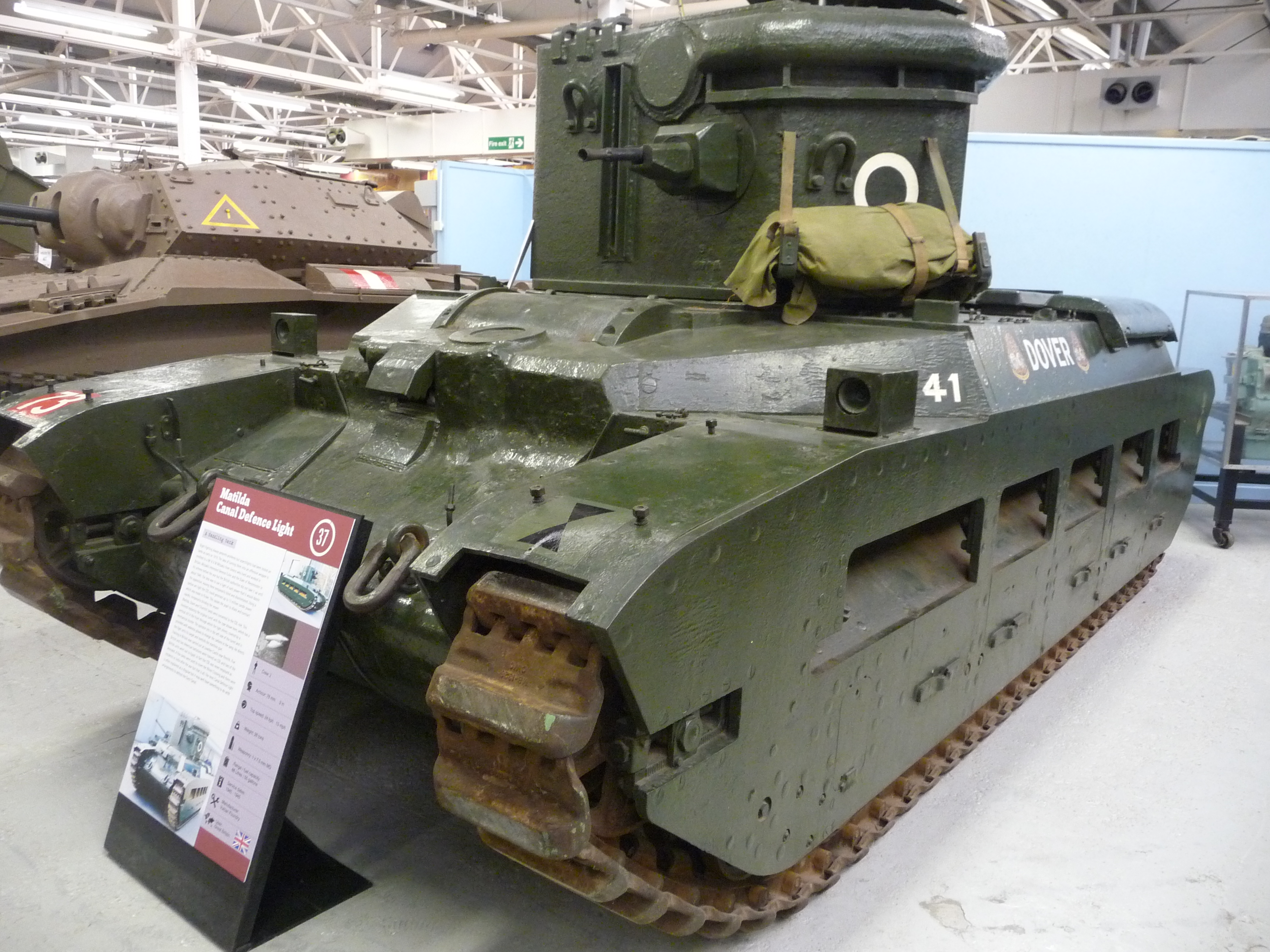 Tank Infantry Mark II A12, Matilda CDL (Defence Light)